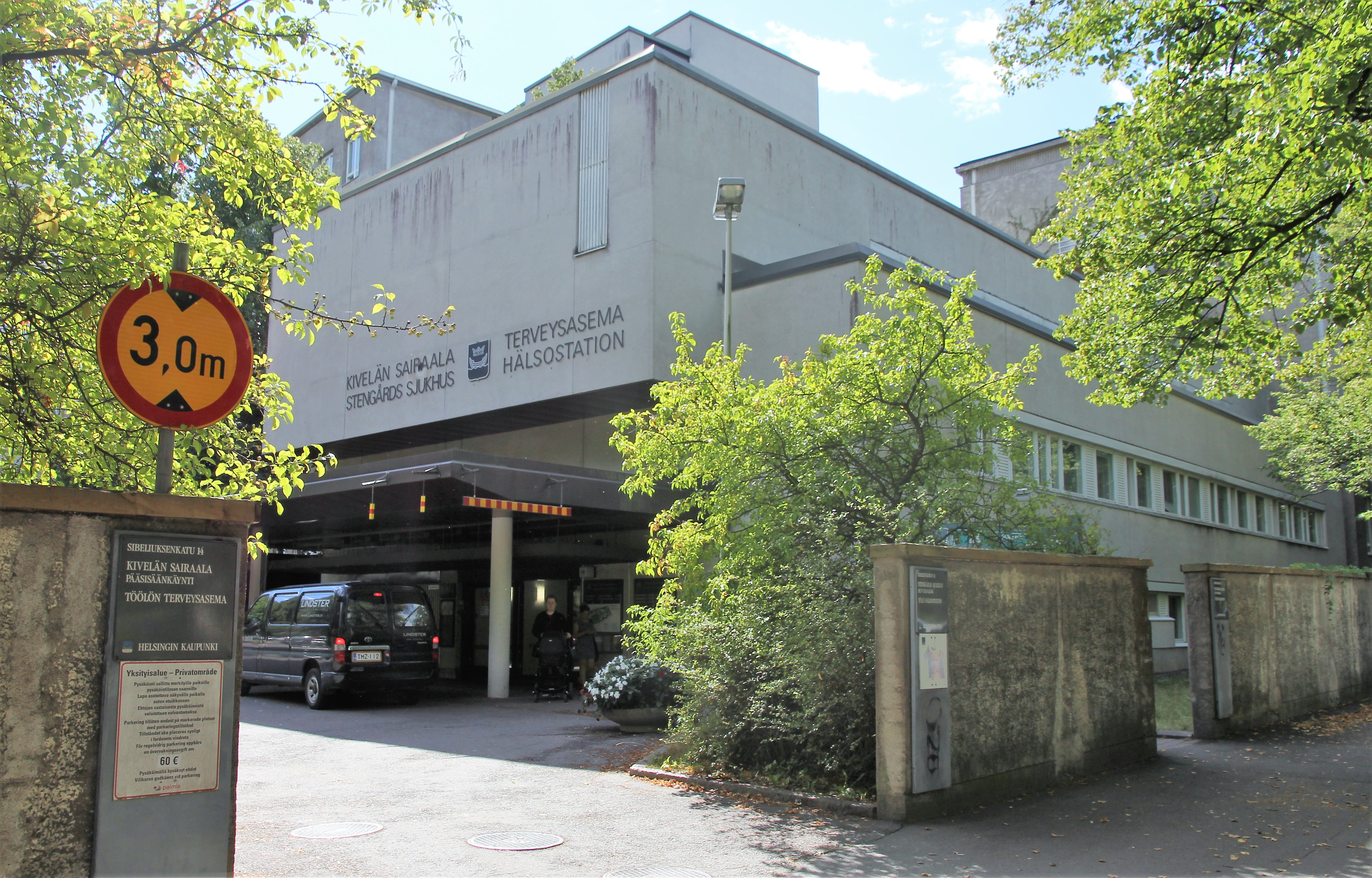 Main entrance to Kivelä hospital and Töölö health station located in Taka-Töölö, Helsinki. Address: Sibeliuksenkatu 14, 00260 Helsinki.